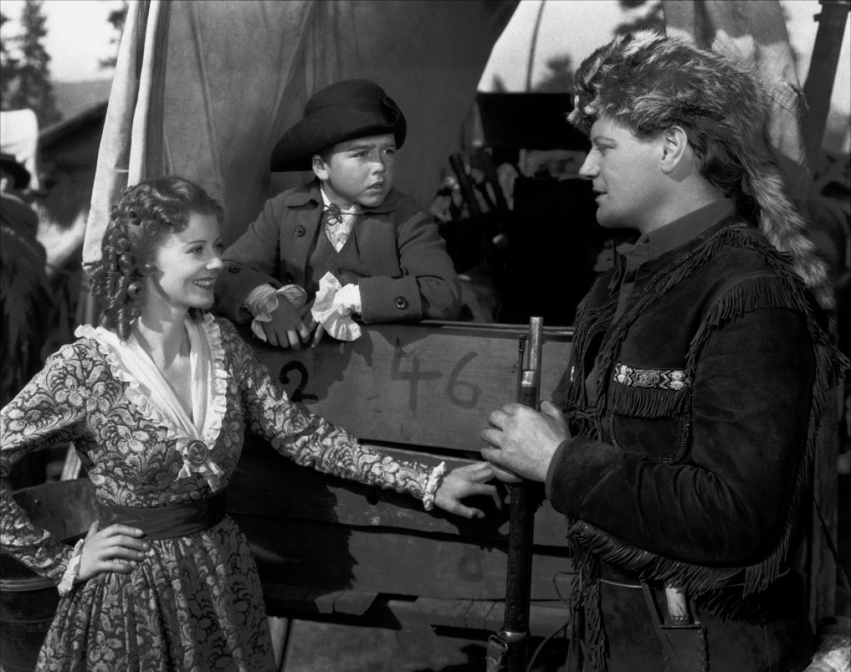 L. to R. : Heather Angel, Dick Jones & Ralph Forbes in Daniel Boone - cropped screenshot